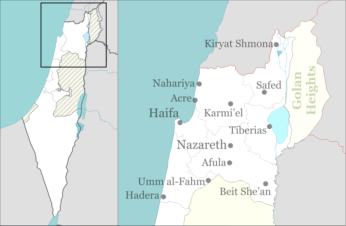 North and Haifa districts of Israel for pushpin maps.